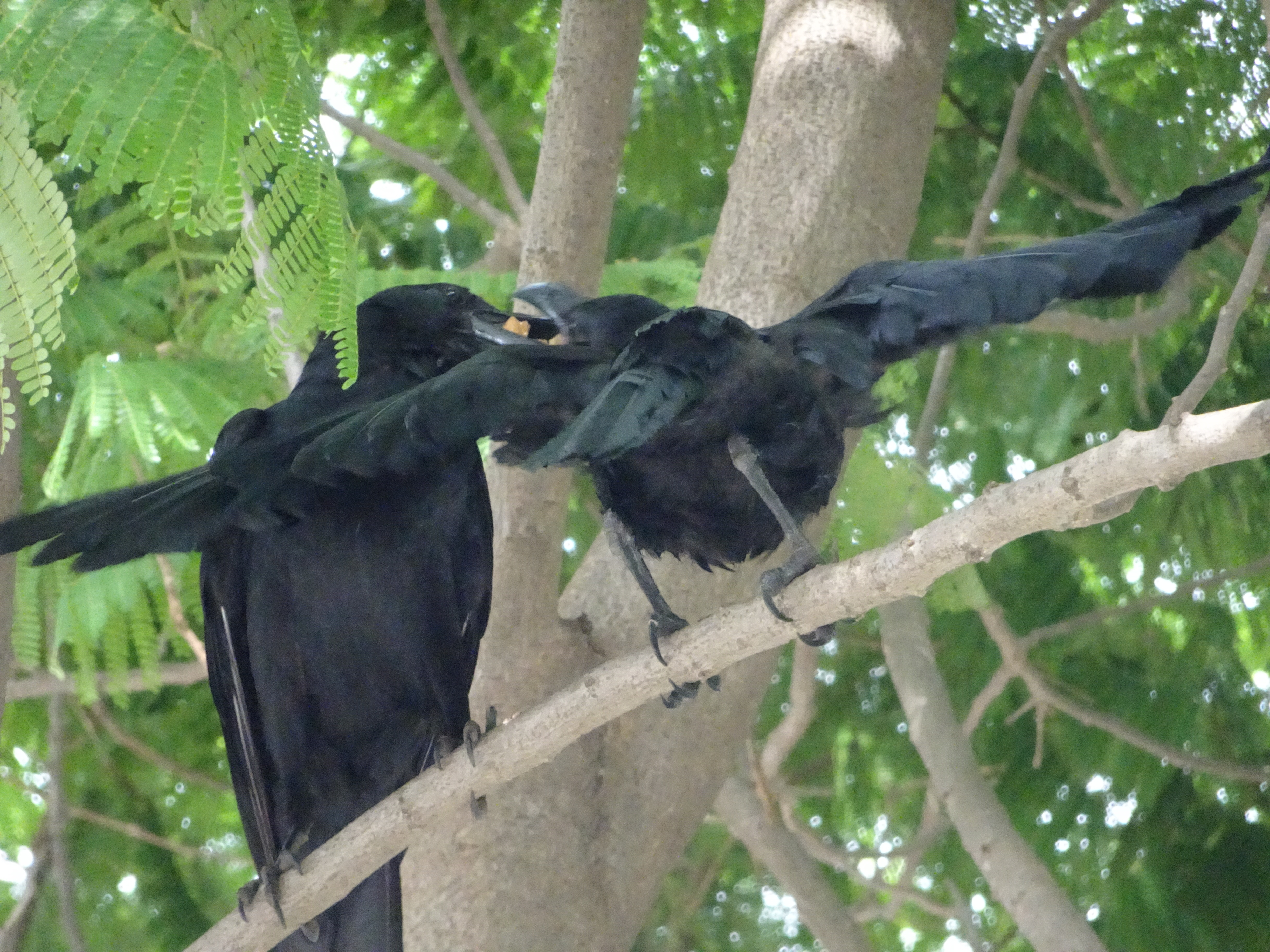 Adult large-billed crow feeding juvenile in Jolly Grant, Dehradun, Uttarakhand, India.